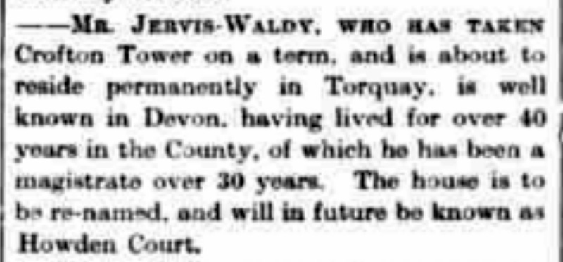 Croft Towers renamed Howden Court in Torquay 1905